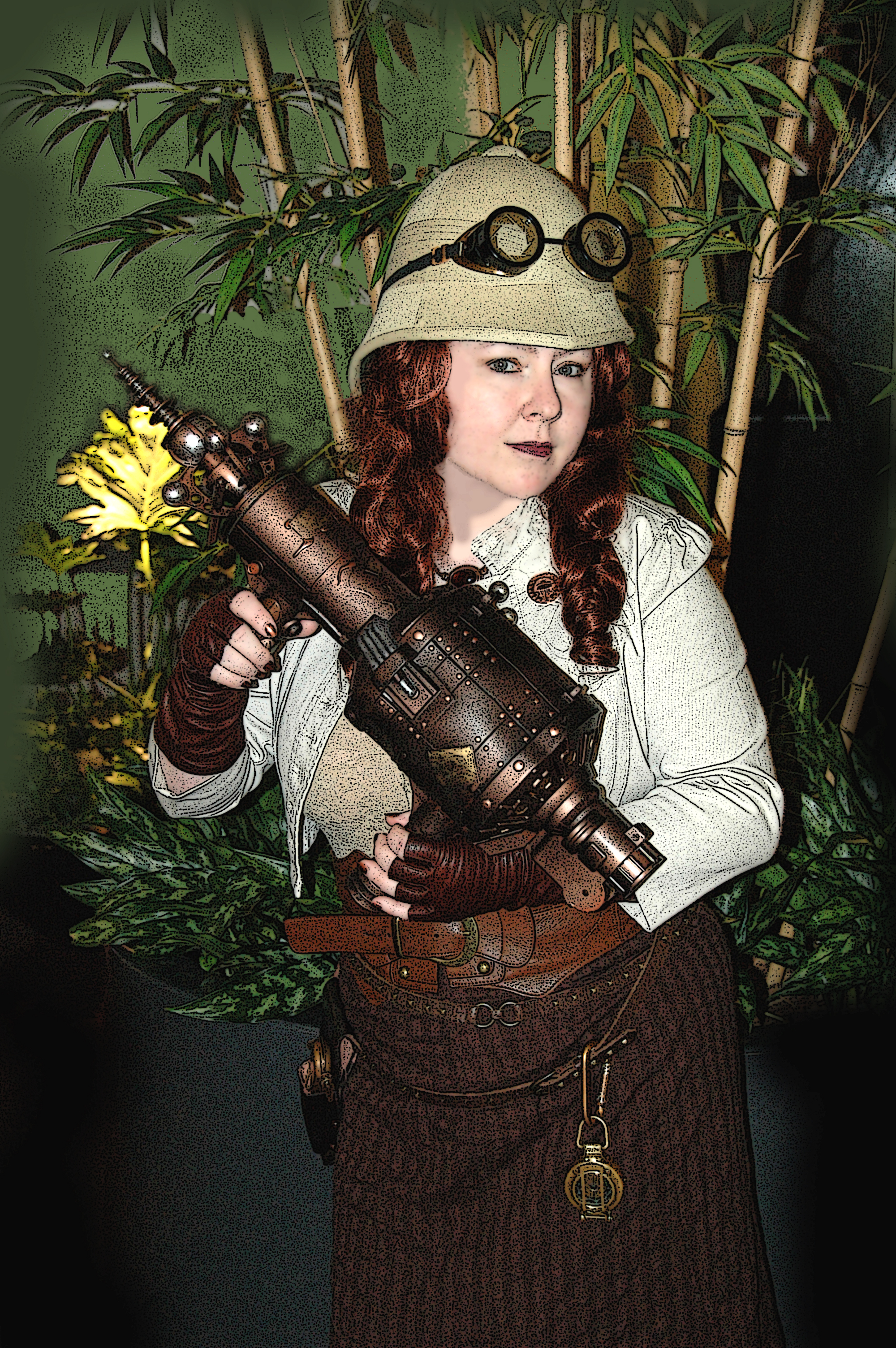 Steampunk enthusiast, Diana Vick portraying Lady Della, an explorer. Photographer - R. "Martin" Armstrong.